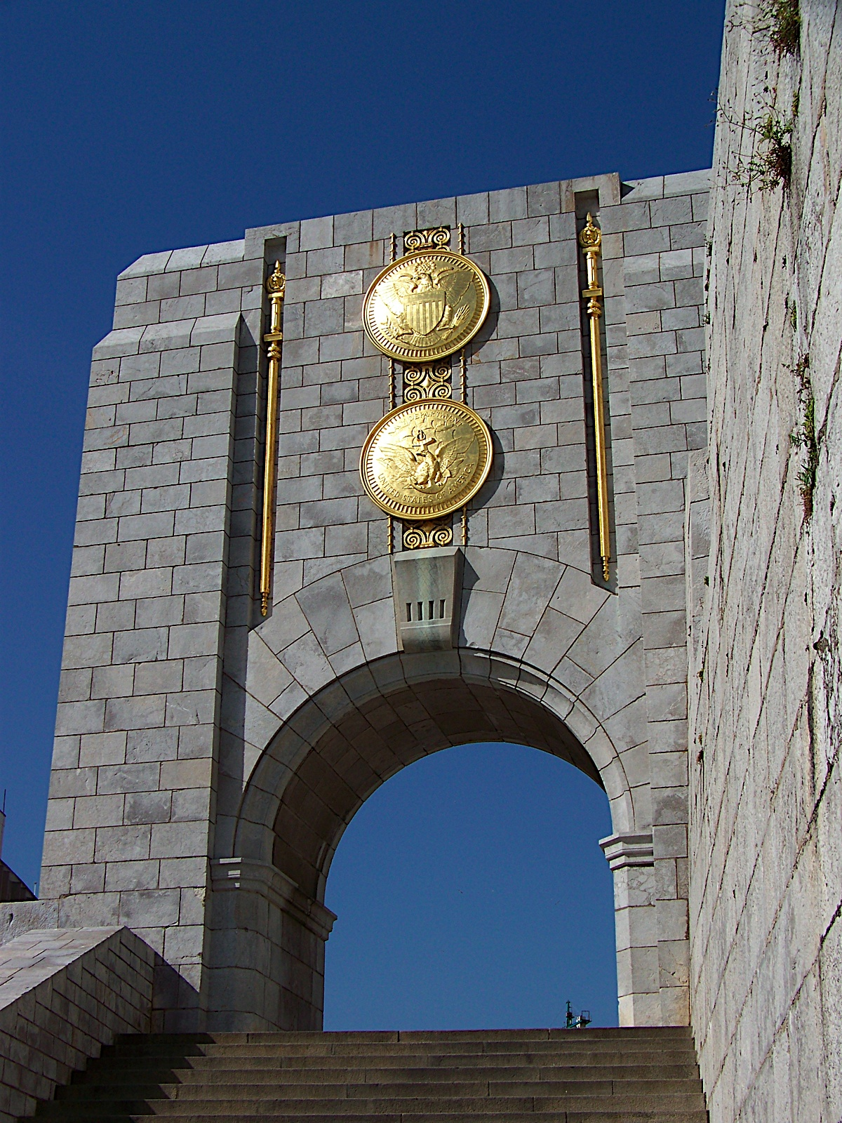 American War Memorial along the city walls, Gibraltar.